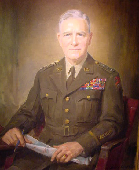 Photo of portrait at Virginia Military Institute. Used with permission of VMI.